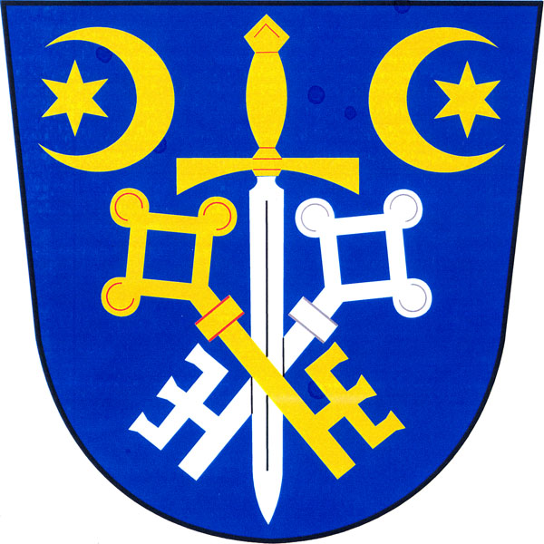 Municipal coat of arms of Podbřežice village, Vyškov District, Czech Republic